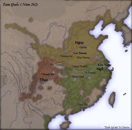 Three Kingdoms in 262, on the eve of the conquest of Shu,Wei and Wu.